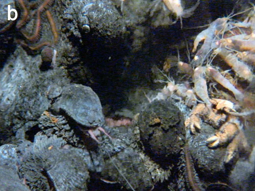 Photo of an assemblage of Chrysomallon squamiferum, Hesiolyra cf. bergi, Kiwa n. sp. “SWIR”, Mirocaris fortunata in close proximity to vent fluid source at Longqi vent field, Southwest Indian Ridge, during the first remotely operated vehicle (ROV) dives in November 2011.